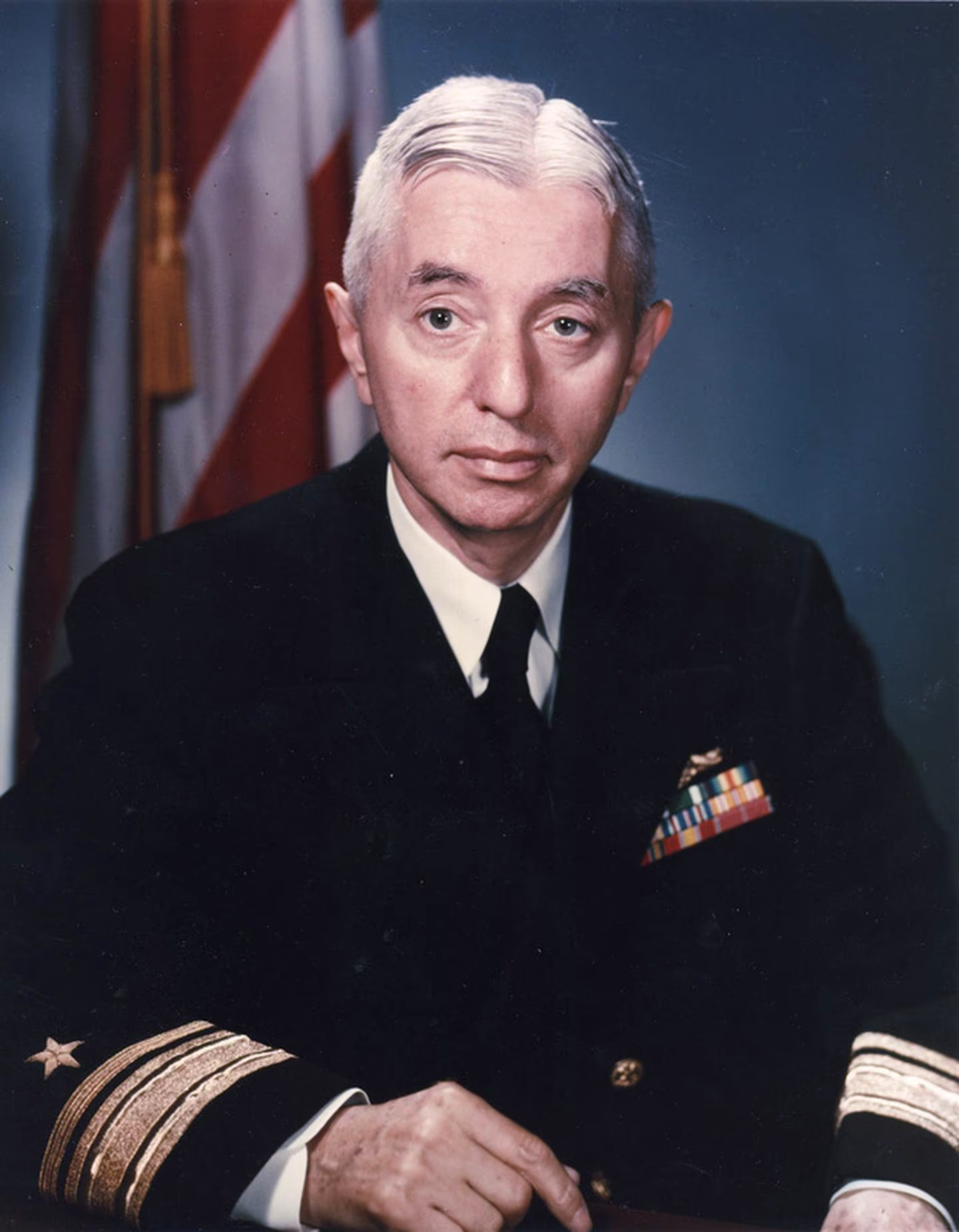 Rear Admiral Hyman G. Rickover